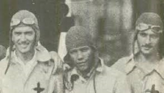 Commander Severiano Lins and his friends